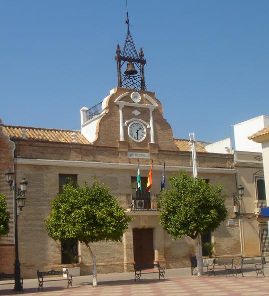 City Hall of Fuente Palmera, Cordoba (Spain)